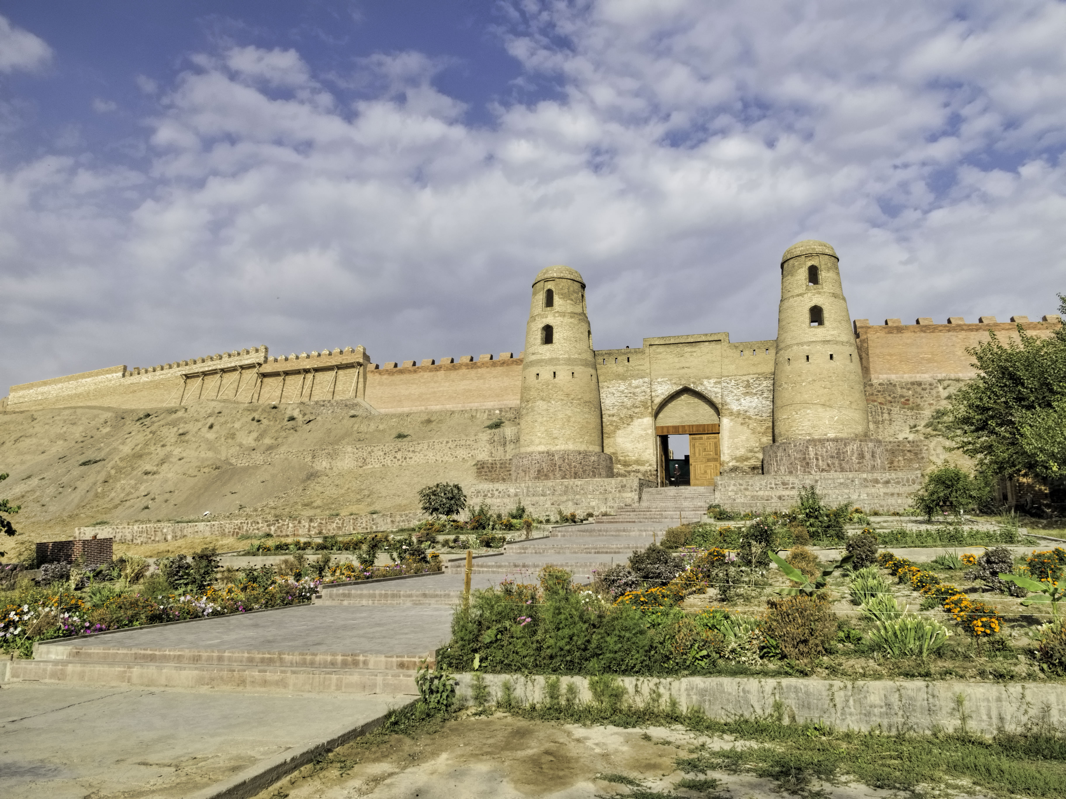 Hisor Fort is not far from the capital Dushanbe near the town of Hisor. The 18th-Century twin-towered gateway is all that survived a 1924 Russian assault. Extensive renovation/reconstruction of the walls and interior is underway to make the fort more touristy. While the fort is said to date back to Cyrus the Great, the King of Kings of Persia in the 6th Century BCE, the current elements relate to the much more recent 16th-Century version when it was the residence of a deputy of the emir of Bukhara (a majority-Tajik city in present-day Uzbekistan). The emirs would summer here. The gateway is in the Bukhara style of the 18th and 19th Centuries.